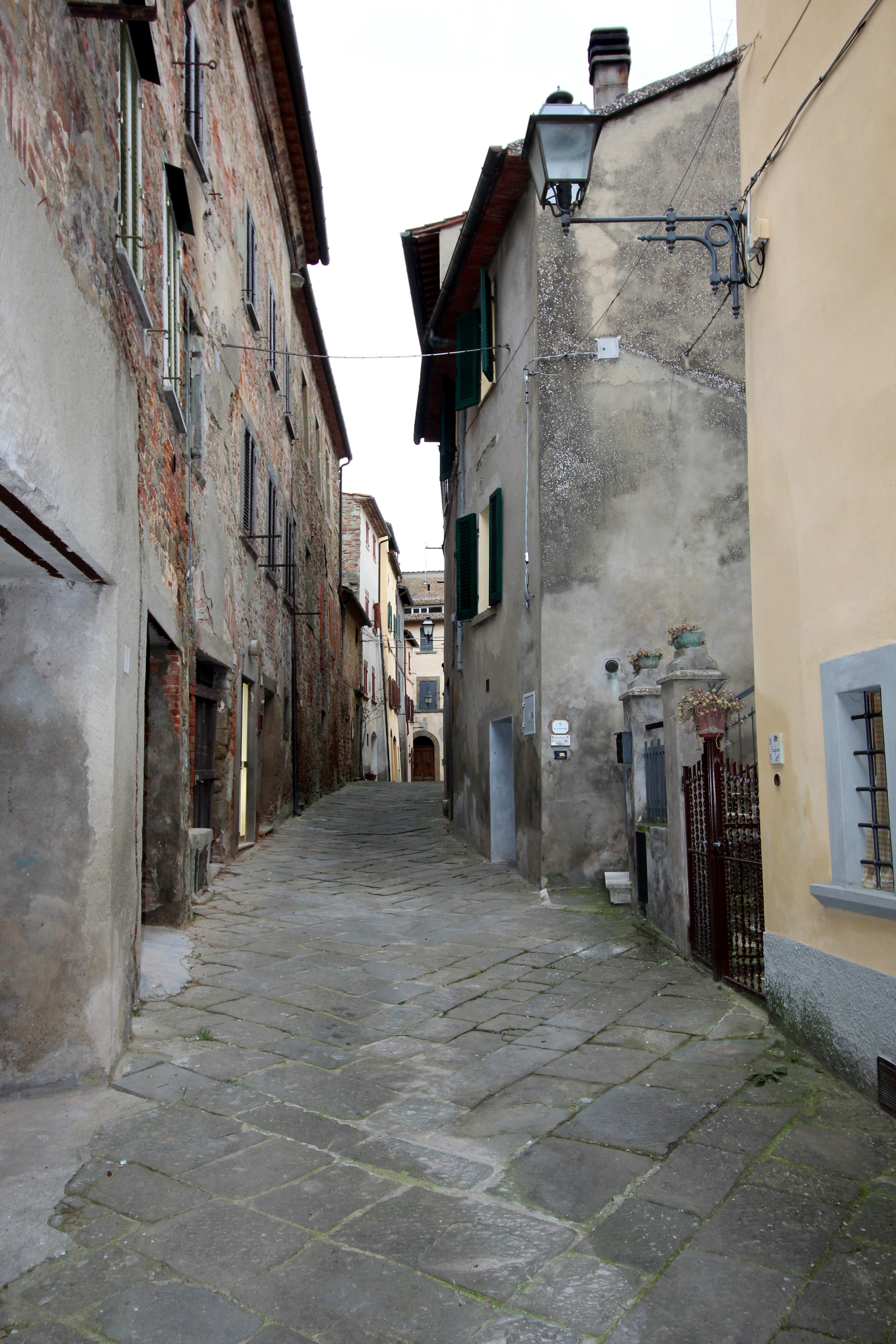 Street Via Salomone Fiorentino, Jewish Ghetto, historical center of Monte San Savino, Province of Arezzo, Tuscany, Italy